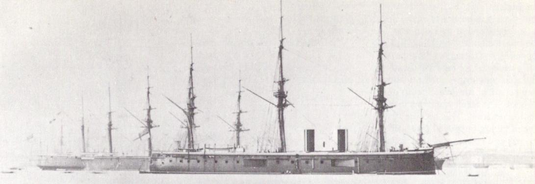 Photograph of British central battery ironclad HMS Hercules as completed